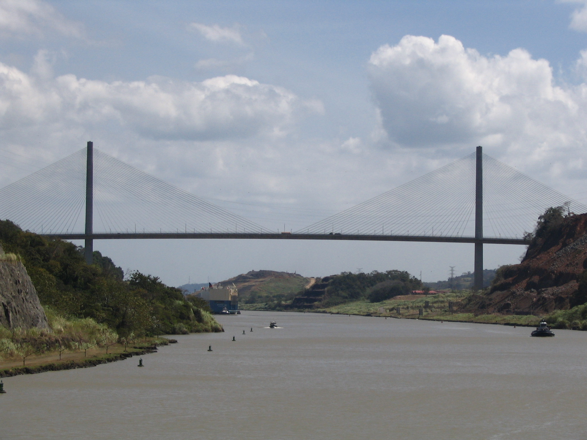 Centennial Bridge crosses the Panama Canal.